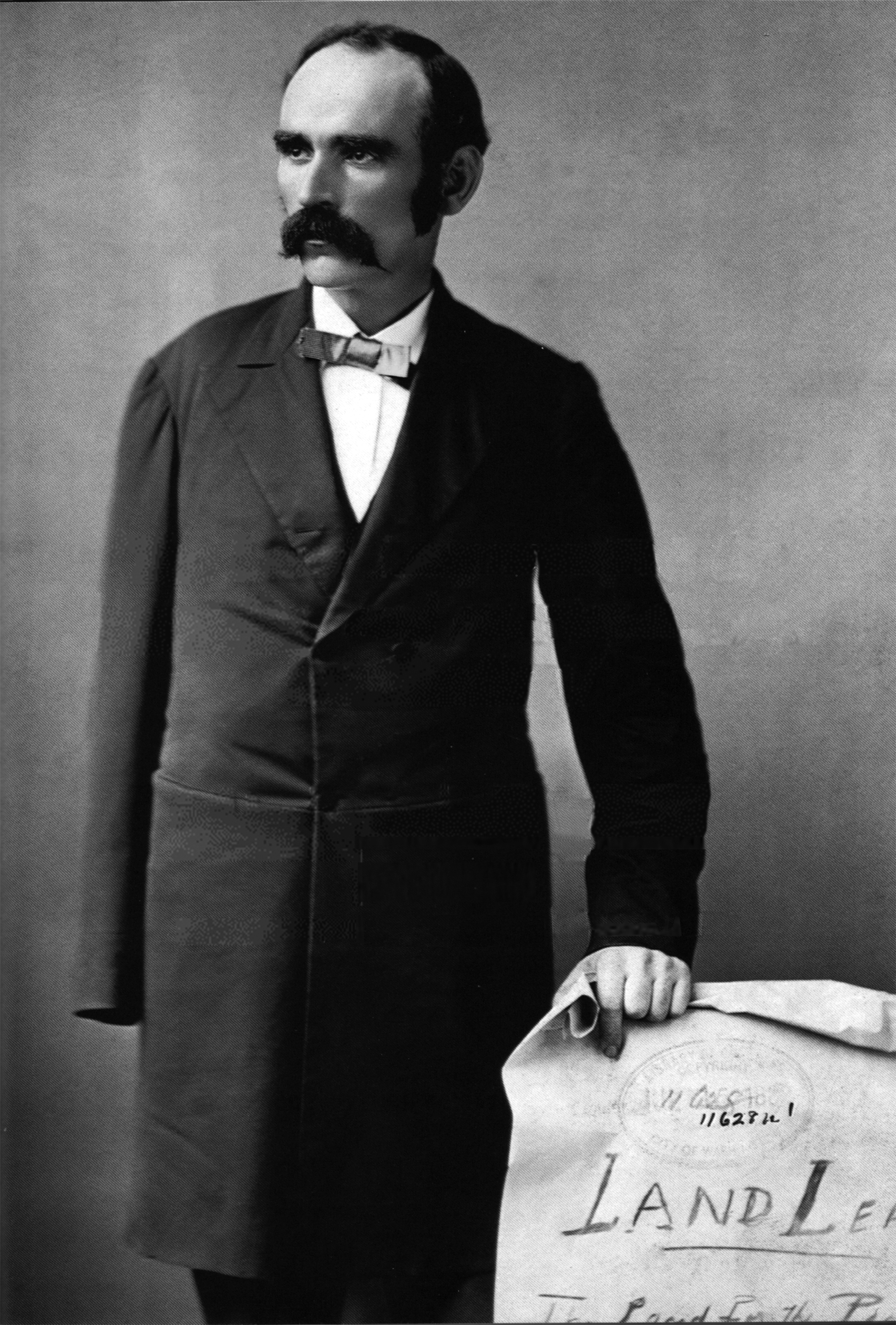 Photograph of Michael Davitt taken in New York City by Napoleon Sarony. Cropped. Missing arm shown, "Land League, The Land for the People"